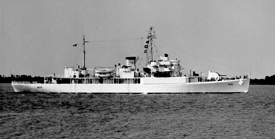 The U.S. Coast Guard Cutter USCGC Coos Bay (WAVP-376). Originally USS Coos Bay (AVP-25) was a Barnegat-class small seaplane tender commissioned by the U.S. Navy for use in the Second World War. From 1949 to 1966 she was loaned to the U.S. Coast Guard, first designated WAVP-376, later WHEC-376. After her return to the Navy, the Coos Bay was struck from the Naval Register and on 9 January 1968 she was expended as target by the guided missile destroyer USS Claude V. Ricketts (DDG-5), and 35 aircraft, 200 km (120 mi) off the coast of Virginia (USA).